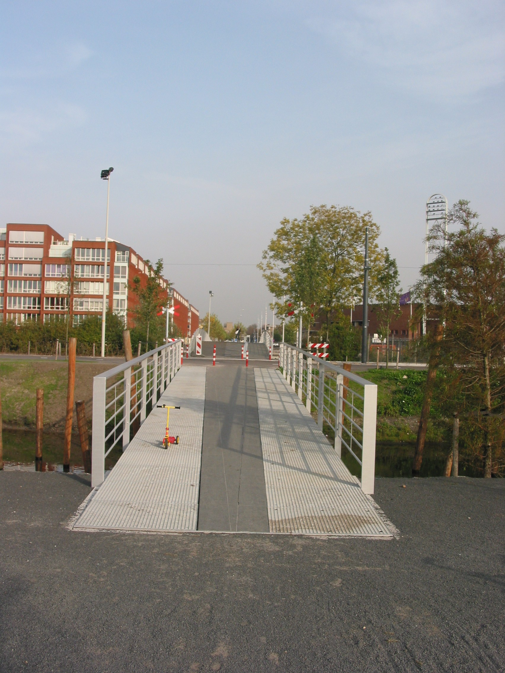 Jan Wils Bridge, Amsterdam.